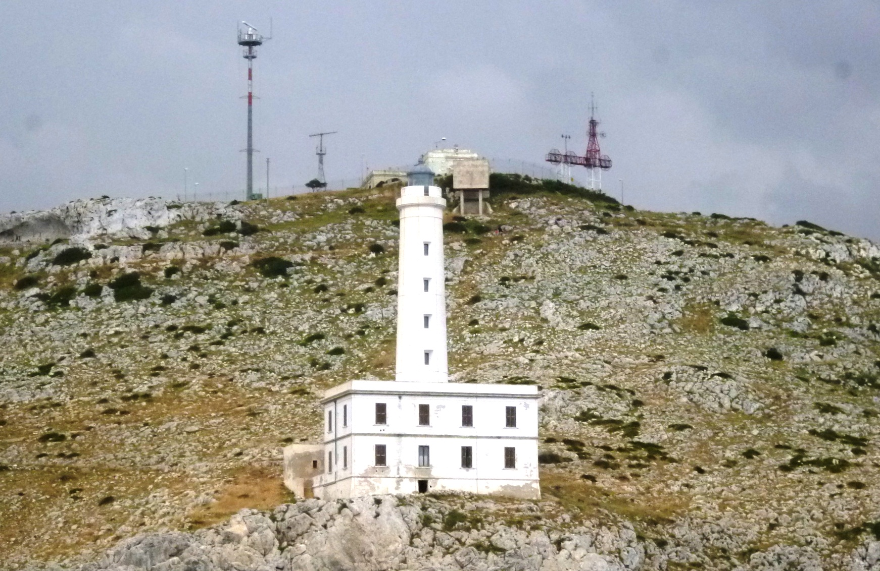 capo d'otranto lighthouse - the East point of italy